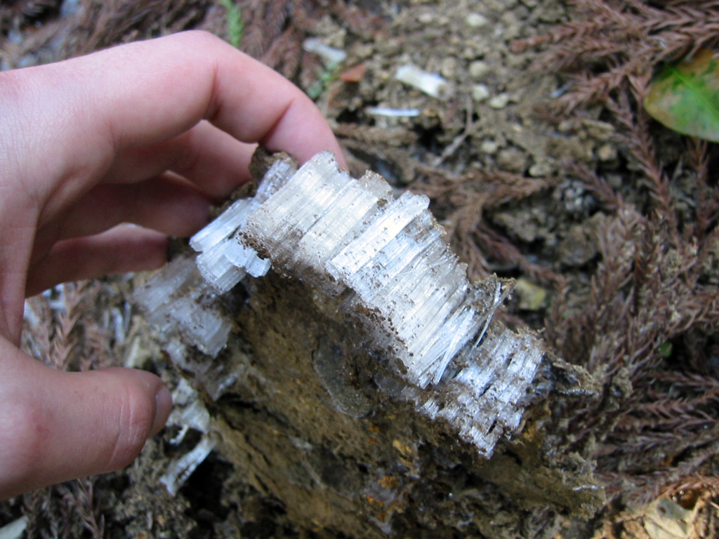 Packed needle ice.